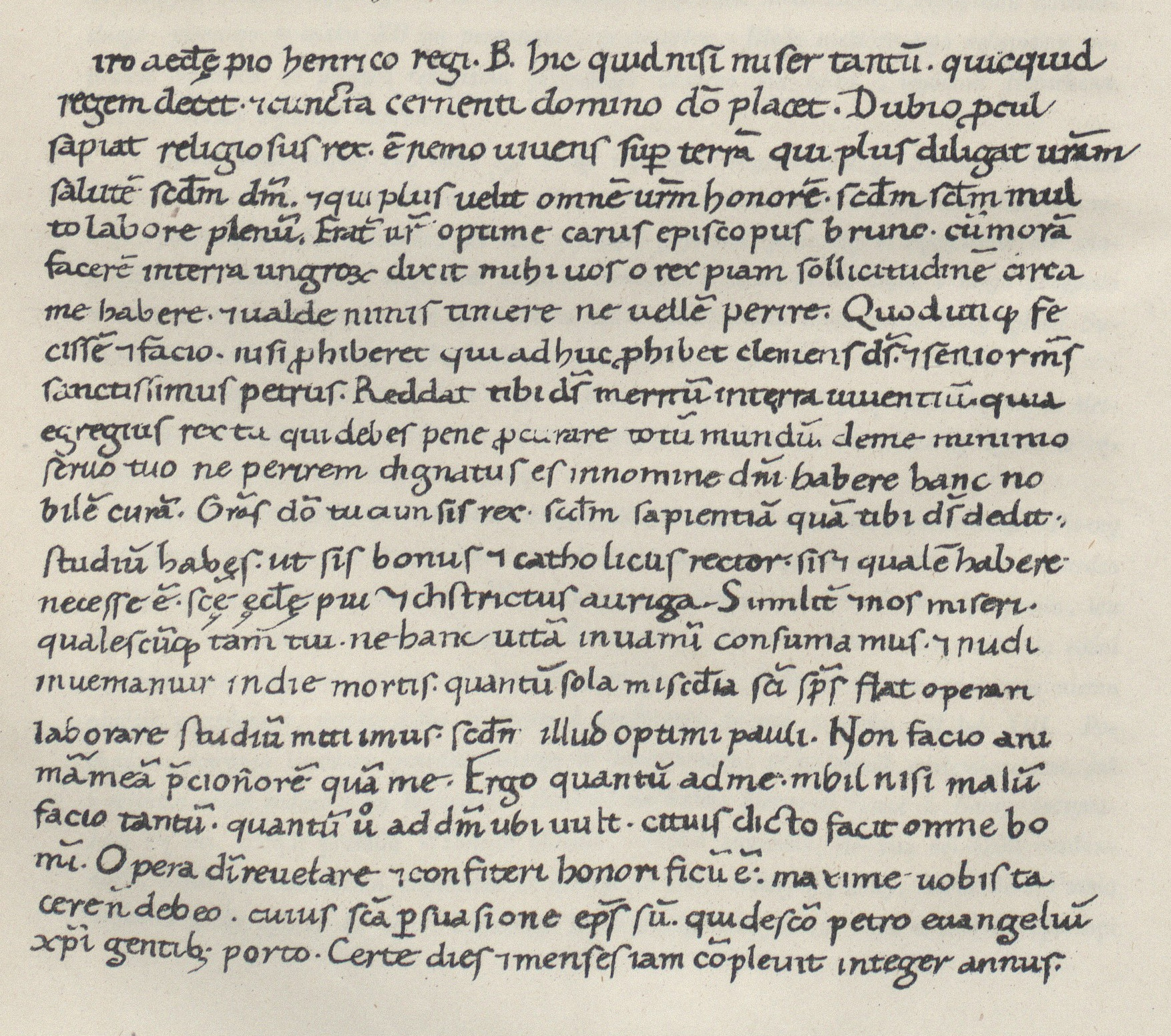 The beginning of the "Letter to Henry II" by Bruno of Querfurt.